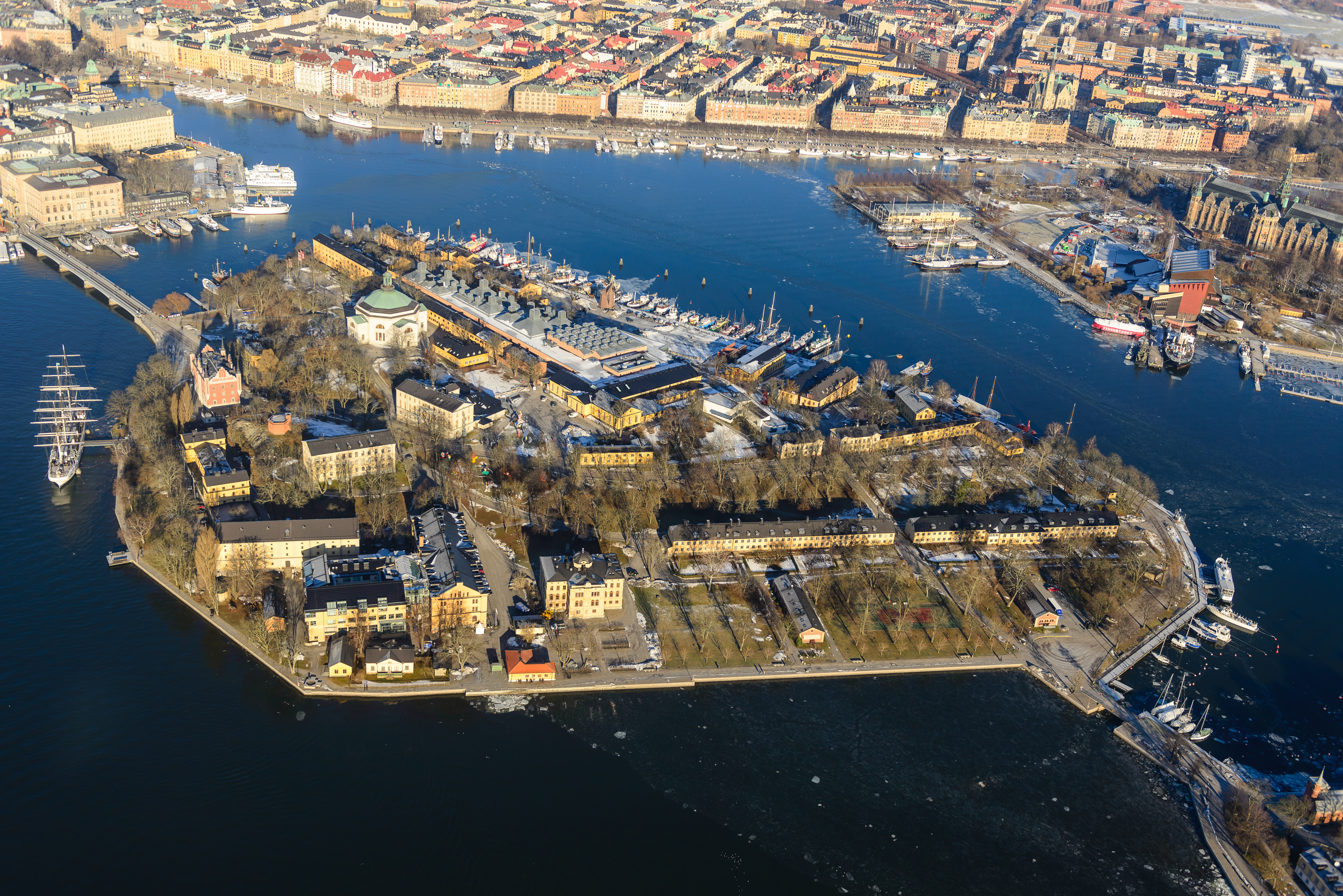 Skepppsholmen.